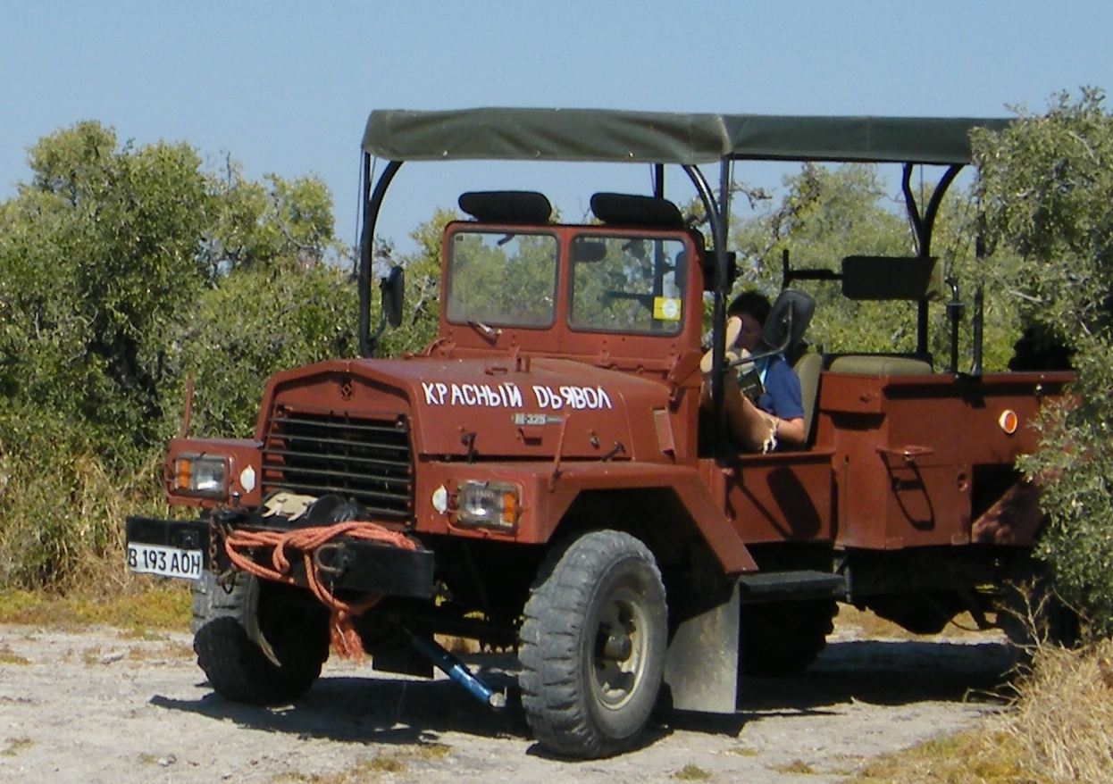 Ex-Botswana Defence Force AIL M325 Command Car (Patrol type) in civilian use in the Tuli Block, Botswana 2008. The inscription means "Red devil" in Russian.